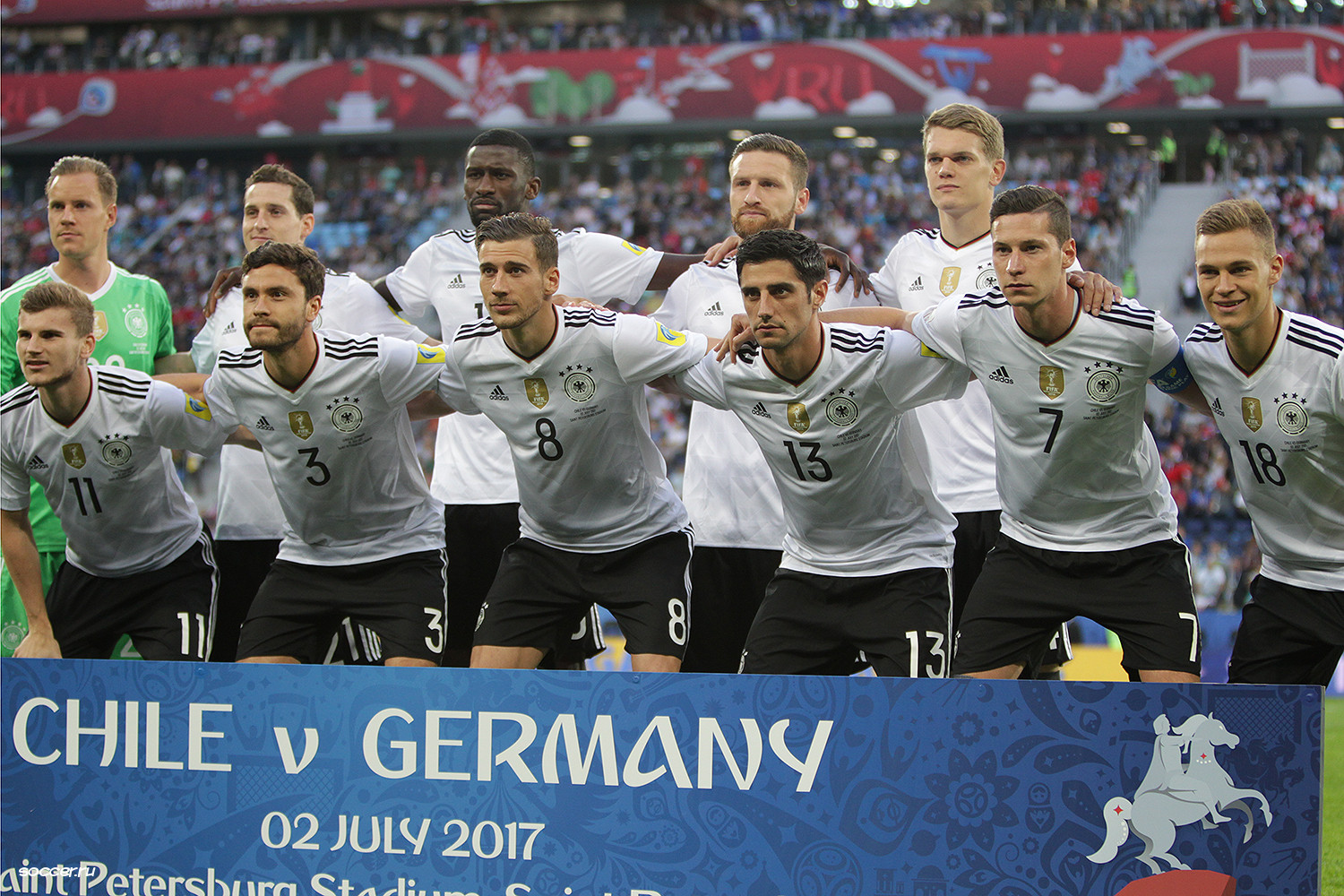 Chile - Germany, 2 Jul 2017